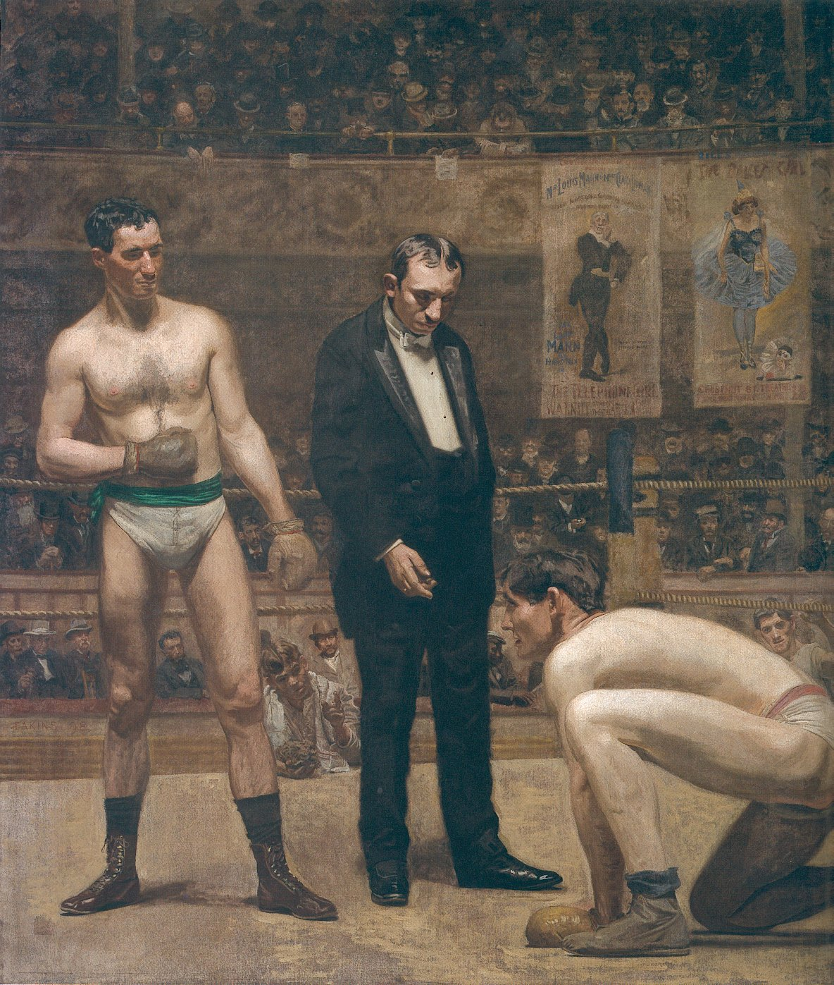 Painting Taking the Count by Thomas Eakins